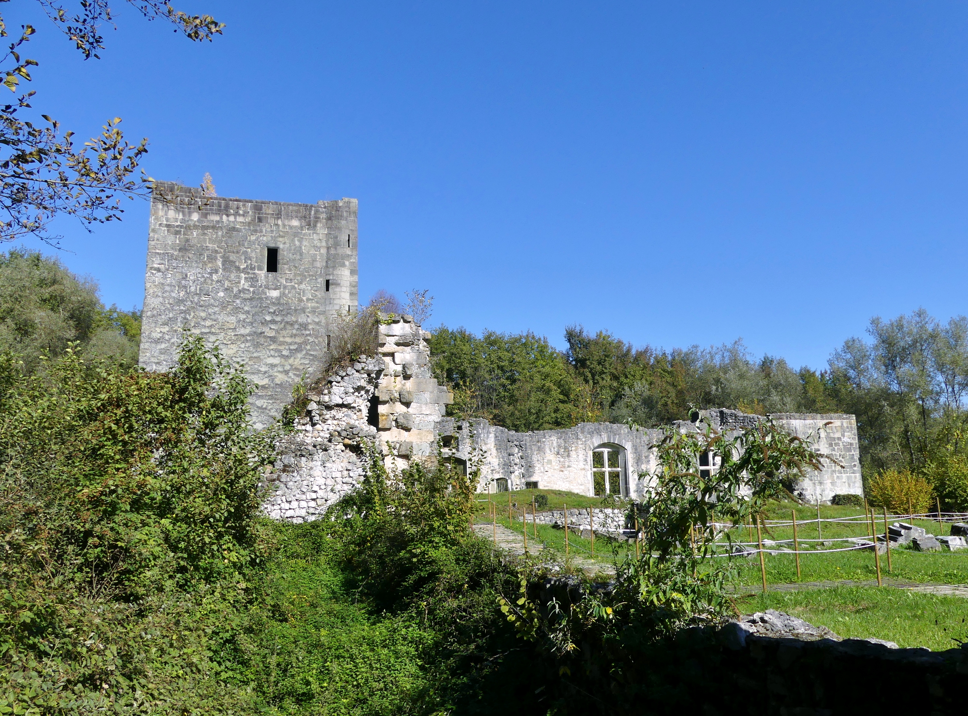 Sight of the northern part of the ruined Château du Bourget castle, in Le Bourget-du-Lac, Savoie, France. At the background can be seen the Dent du Chat mountain.